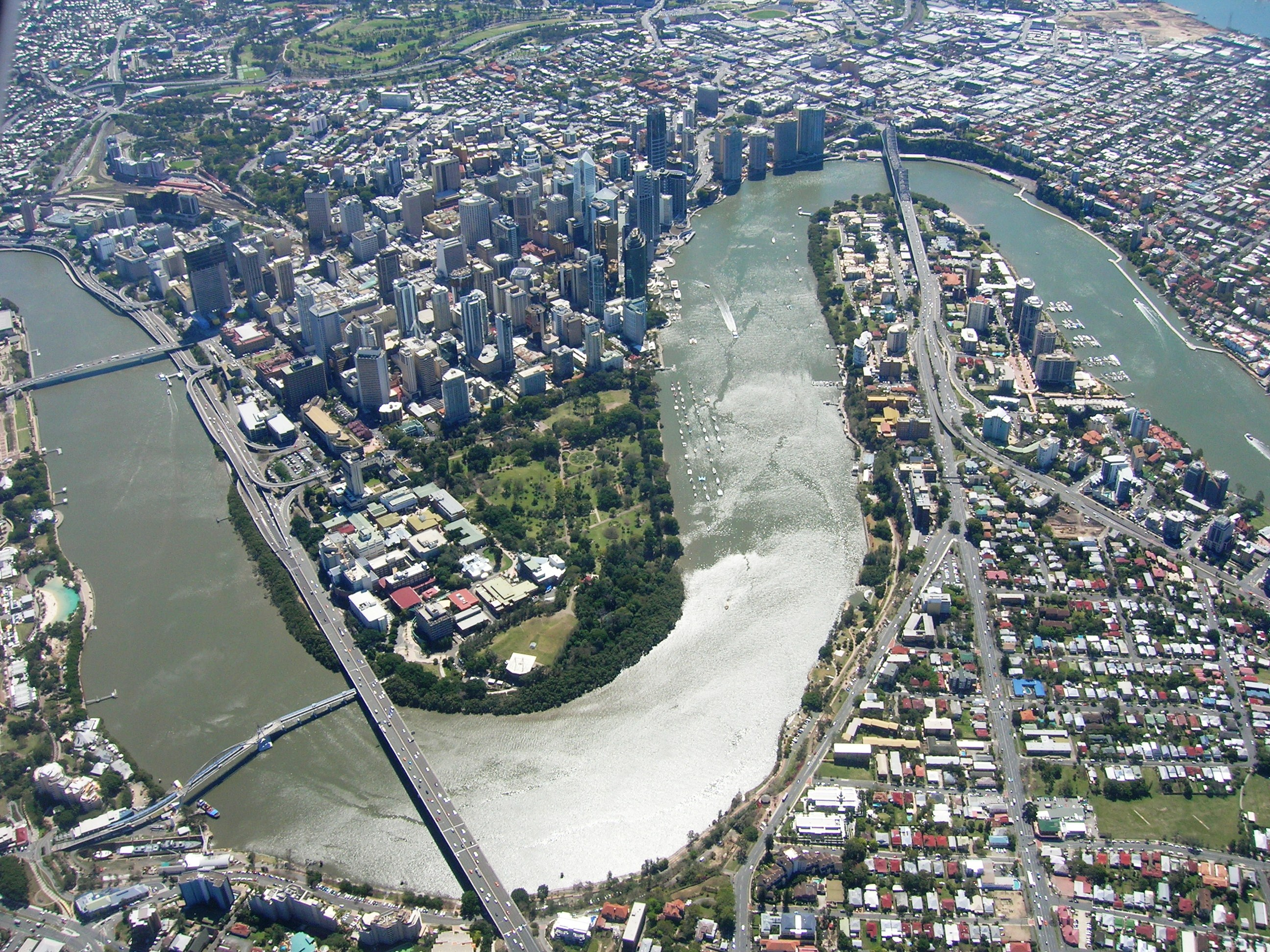 A great view of one of my favourite cities, I love getting up early and running across Storey bridge, down along the river by the cliffs, over the footbriddge and back home through the botanical garden. I can see the whole route in this snapshot. i090806 016